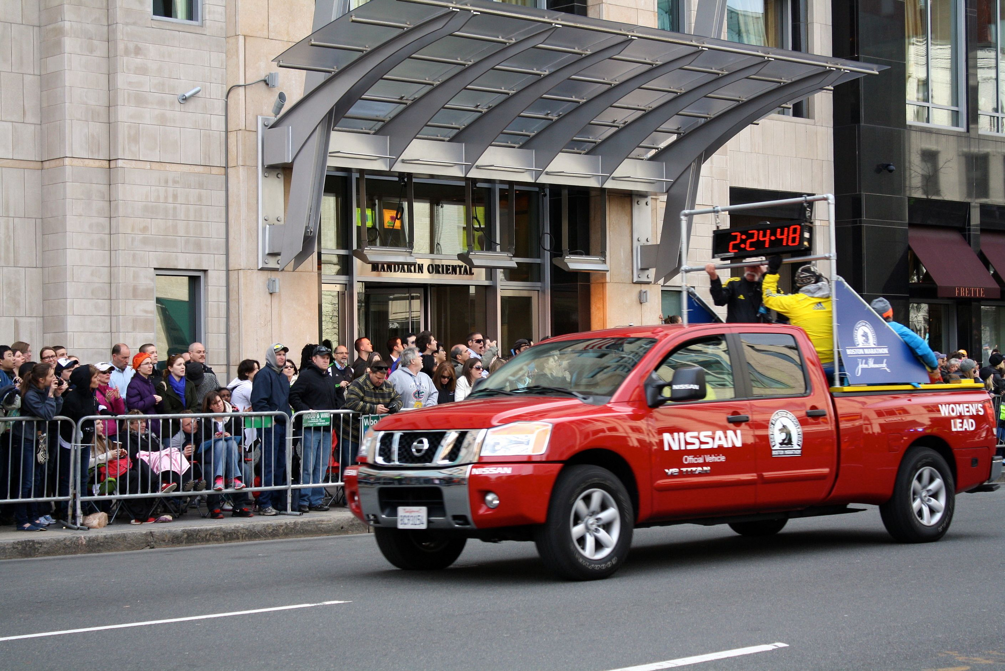 Boston Marathon.